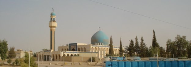 Mosque in Anah Iraq protected by US Marines